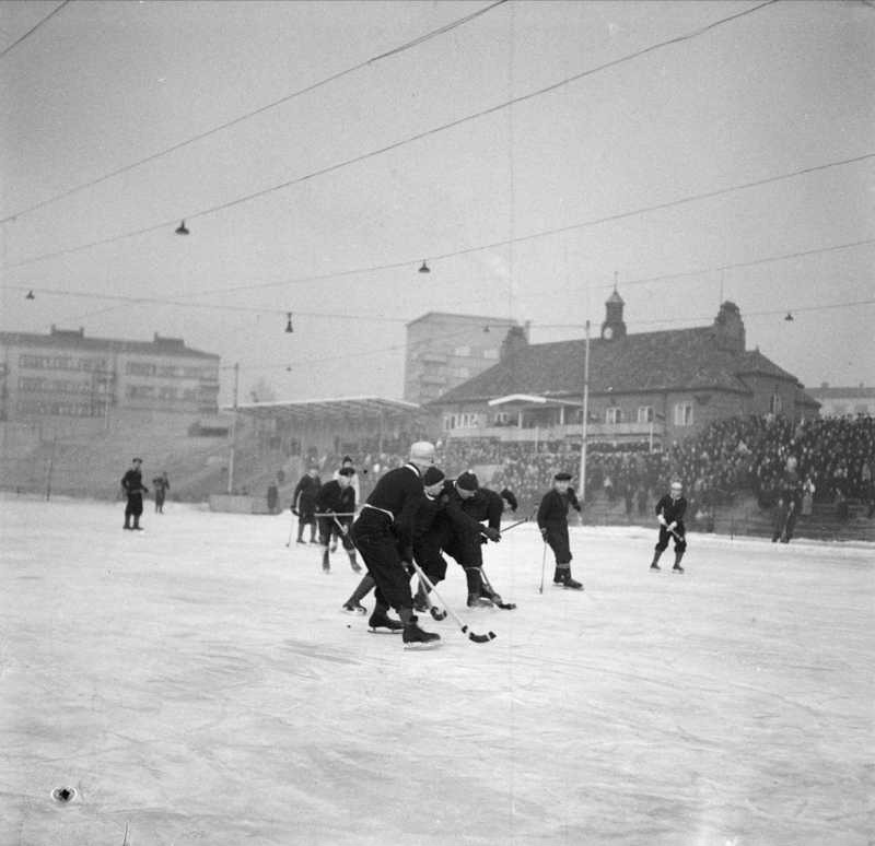 Norwegian national bandy championship final of 1947 between Frigg Oslo FK and Mjøndalen IF at Bislett in Oslo, Norway